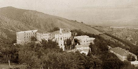 Bodbe Monastery in 1905. Category:Images of Georgia (country) Source: Orthodoxy.Ge